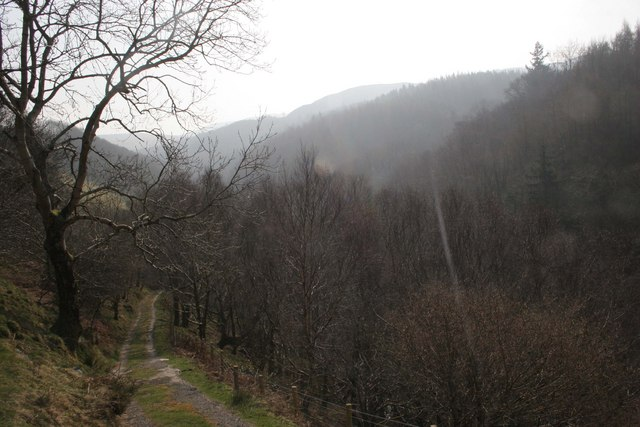 Into the valley Looking into Cwm Einion on a very hazy morning.